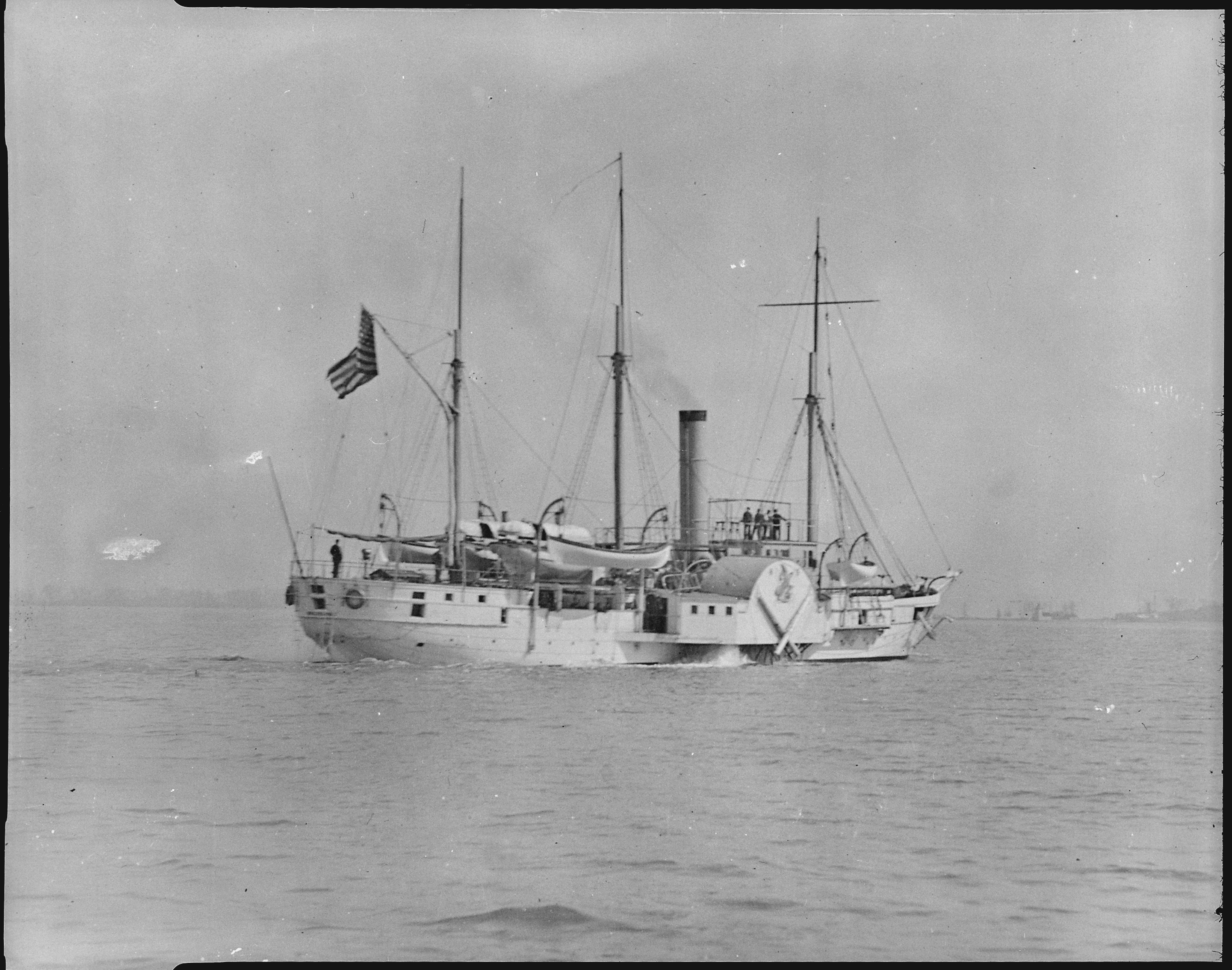 Scope and content: The Michigan (renamed the Wolverine in 1905), an iron-hulled sidewheel lake steamer, was commissioned in 1844.